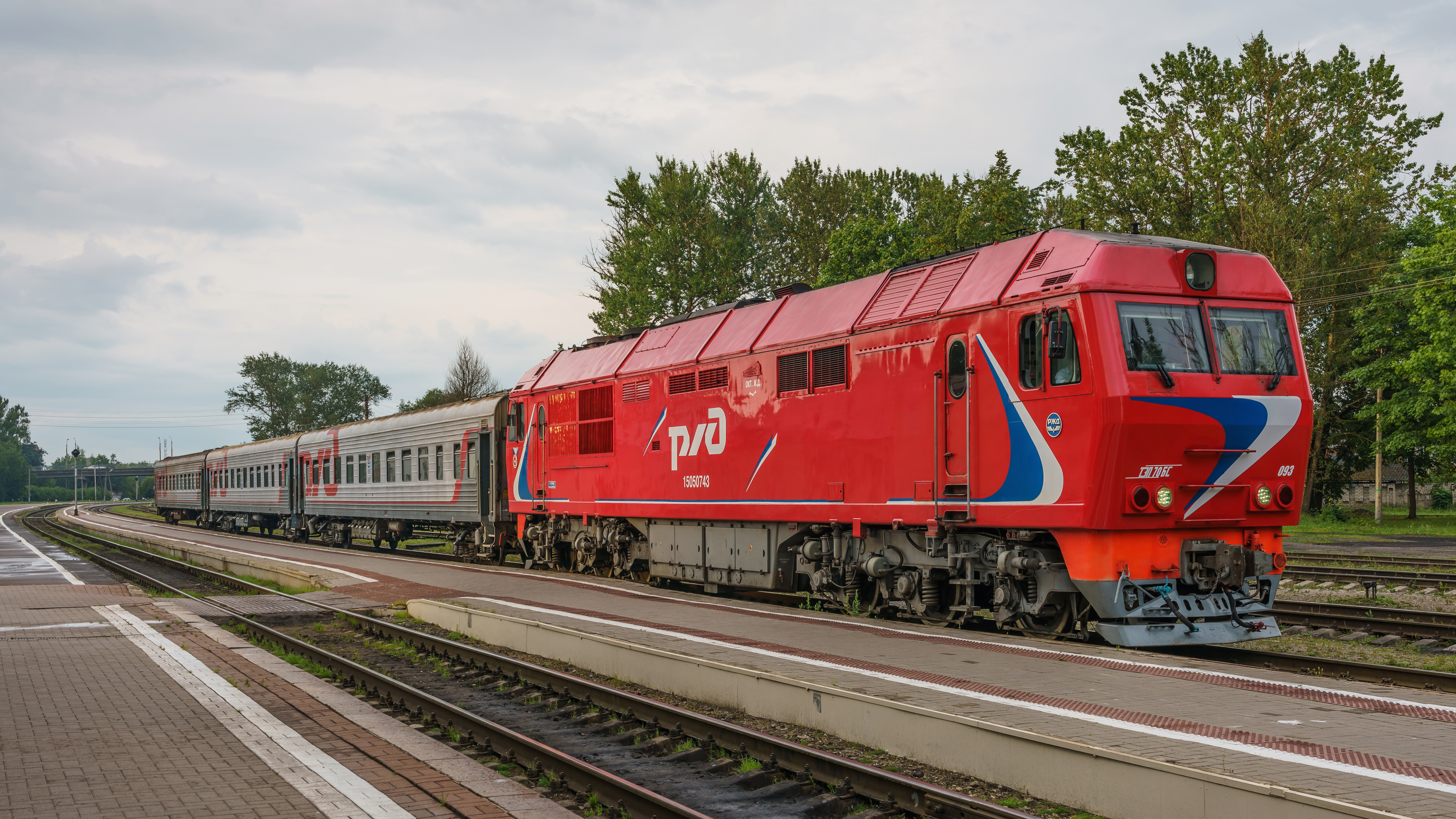 Railway station (track side) in Pskov, Russia